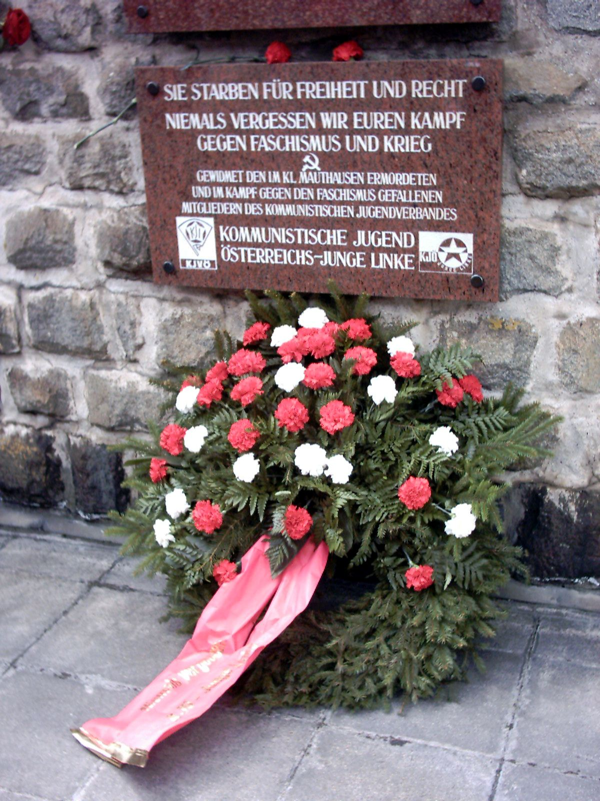 Commemorative plaque of the Communist Youth of Austria - Young Left in the Mauthausen-Gusen concentration camp